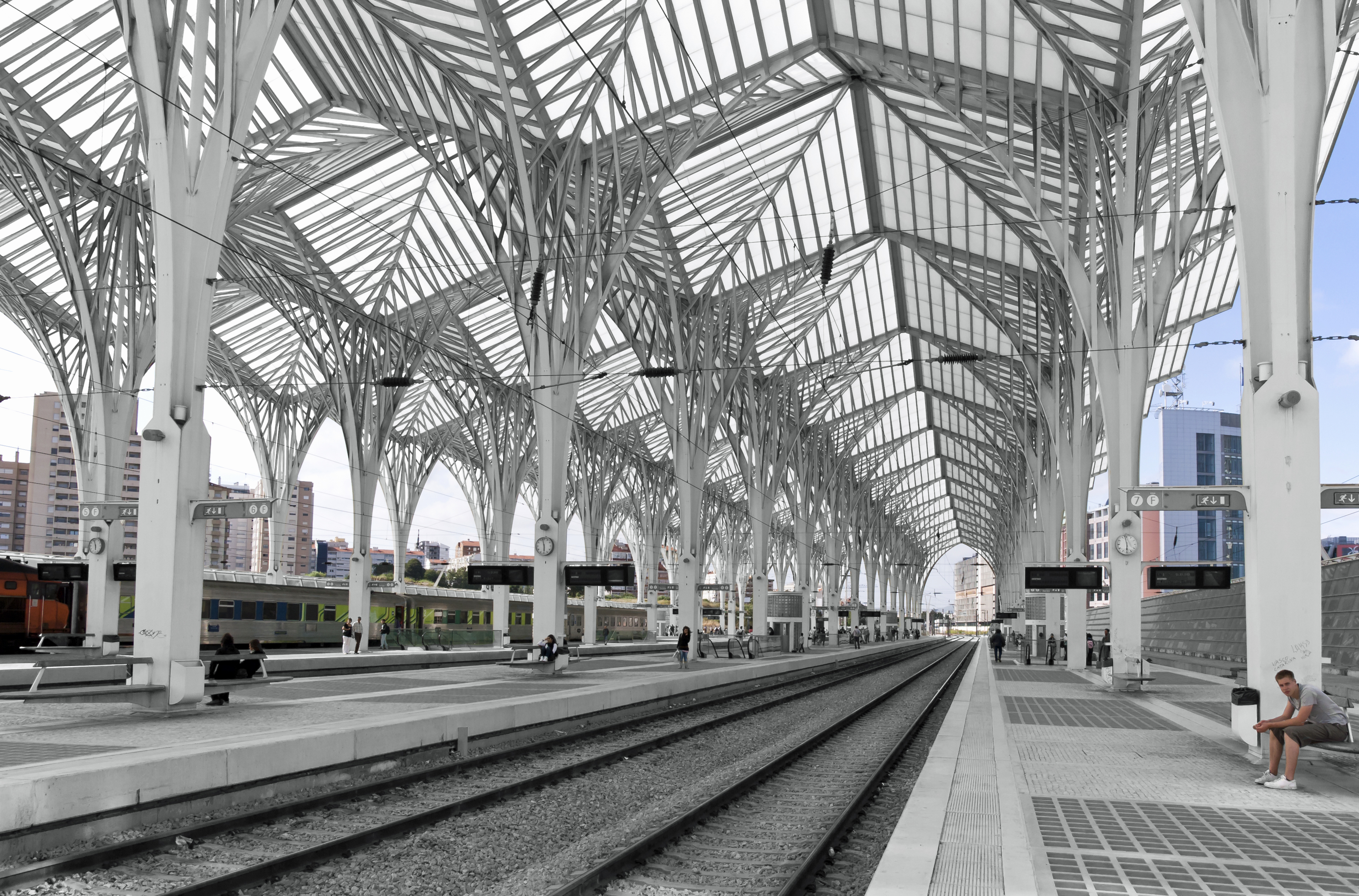 Gare do Oriente train station, Lisbon, Portugal